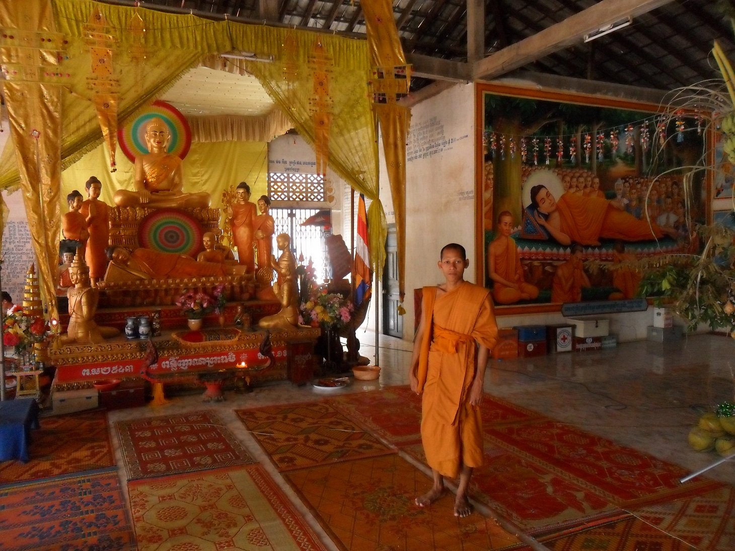 Inside a Buddhist wood-temple with a monk, Battambang, Cambodia